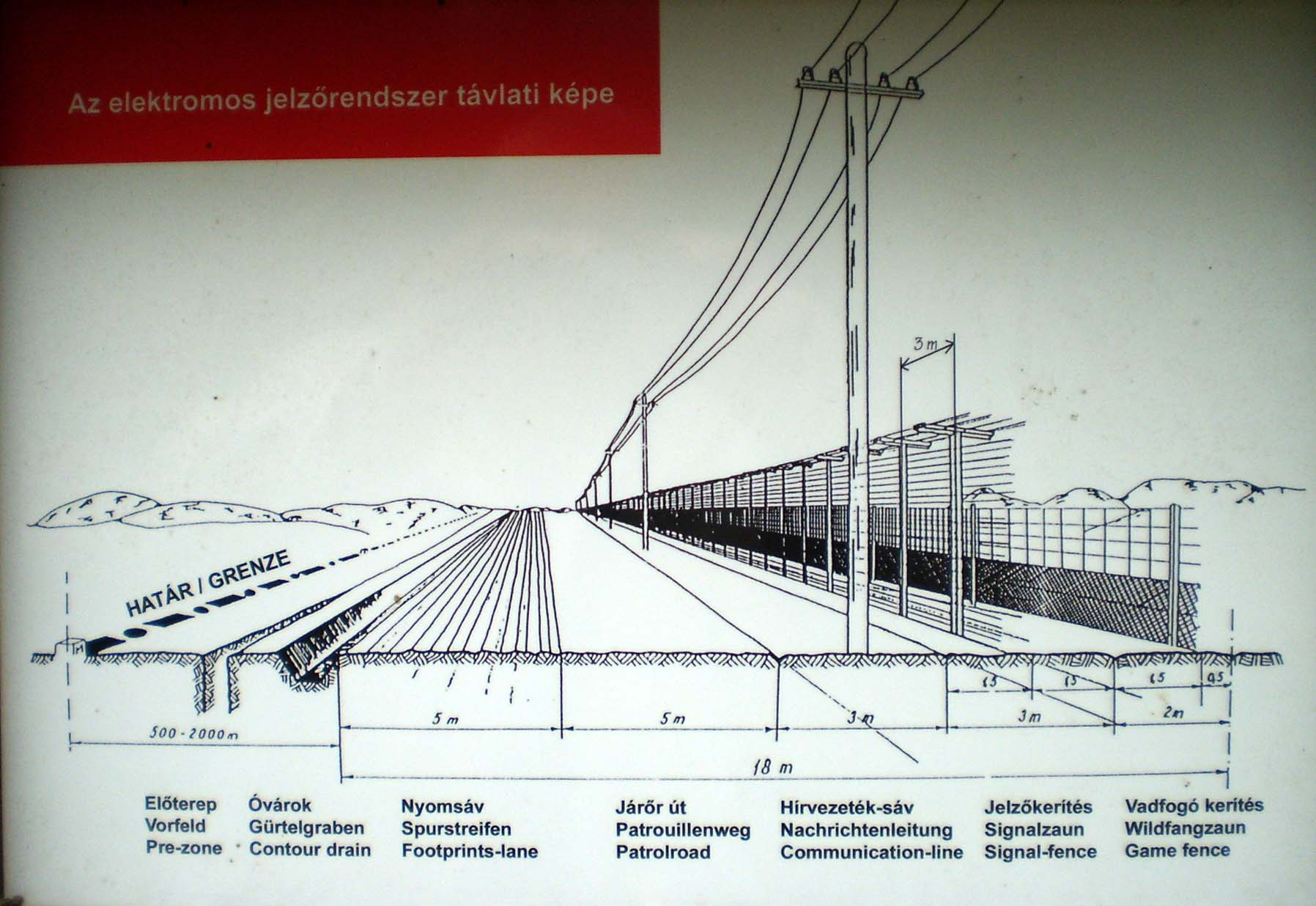 Sketch of the Hungarian iron curtain